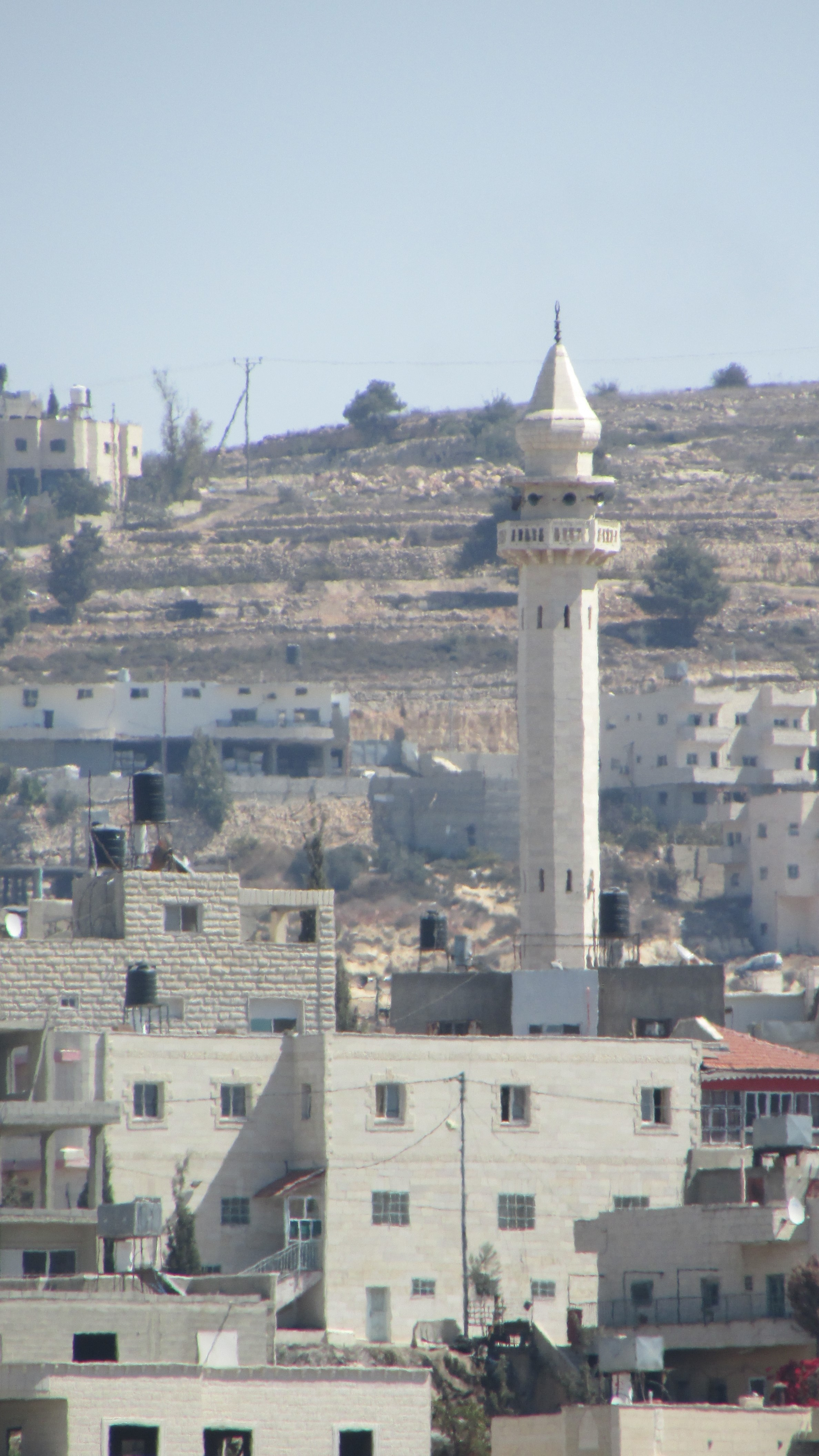 Husan from the west